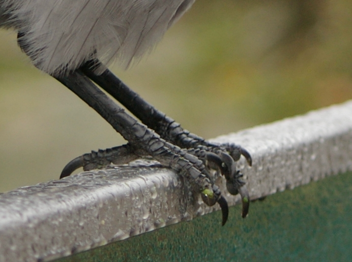 A Hooded Crow's (Corvus cornix) legs